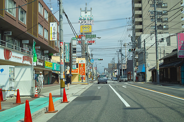 The Aichi Prefectural Road and Gifu Prefectural Road Route 15 in Hyotan-yama, Moriyama-ku, Nagoya City